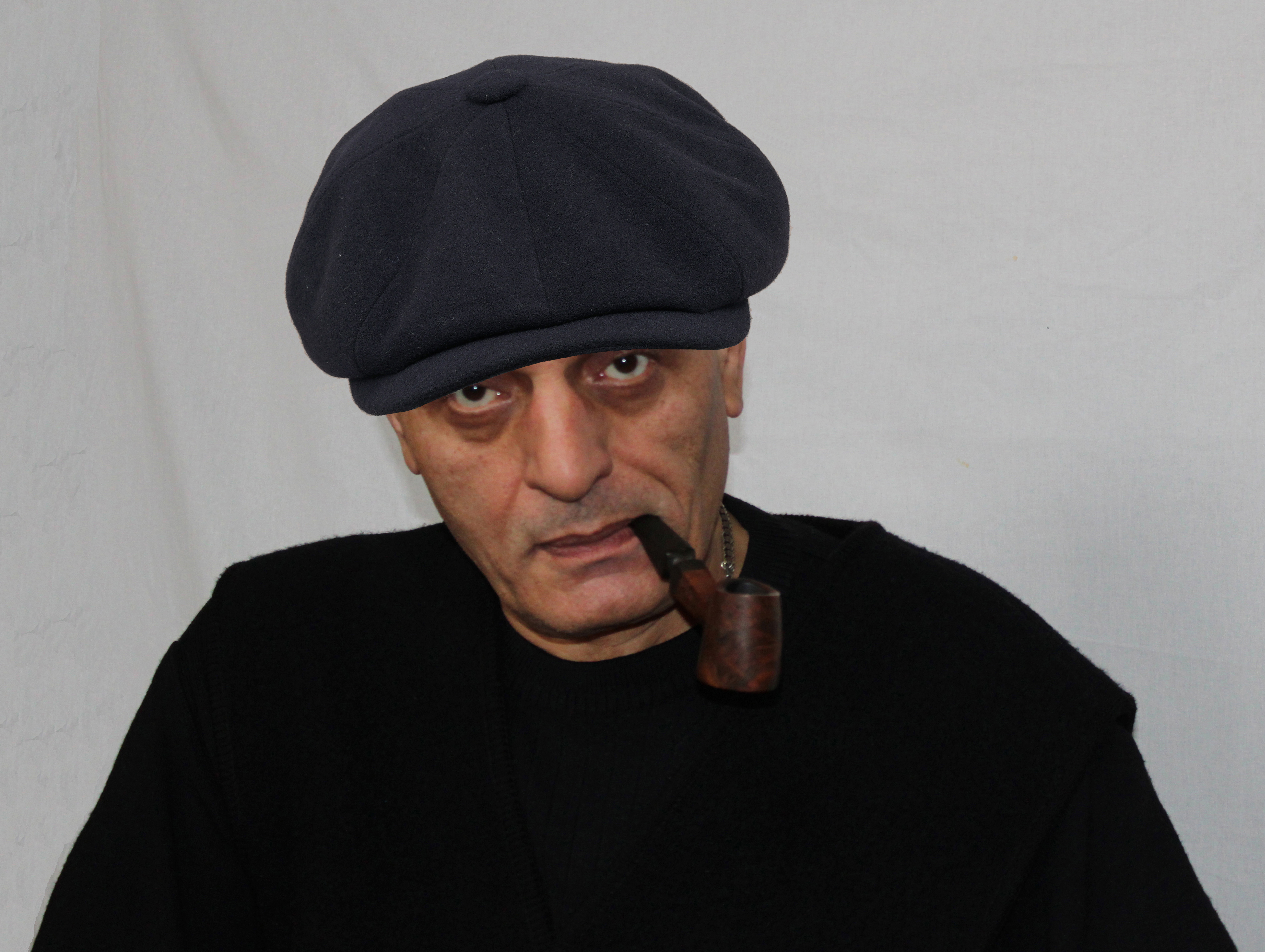 Mikho Mosulishvili, 2018